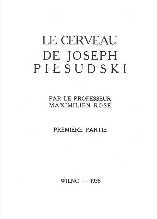 Title page